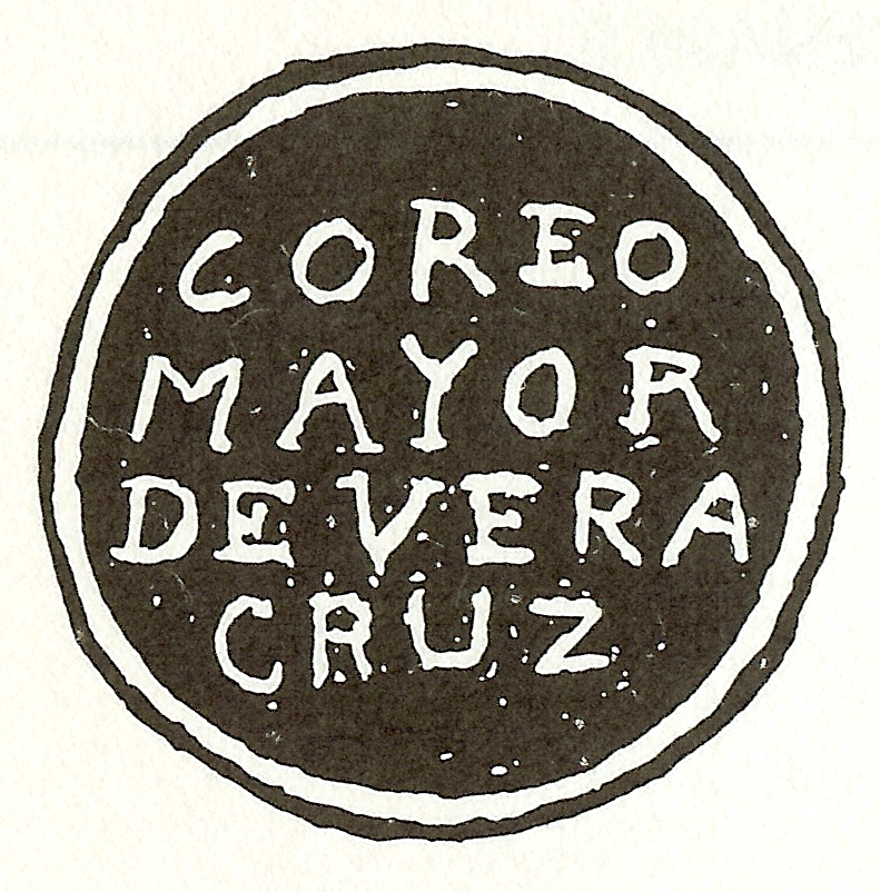 This is an image of a postmark applied to Mexican letters from 1736 to 1739.